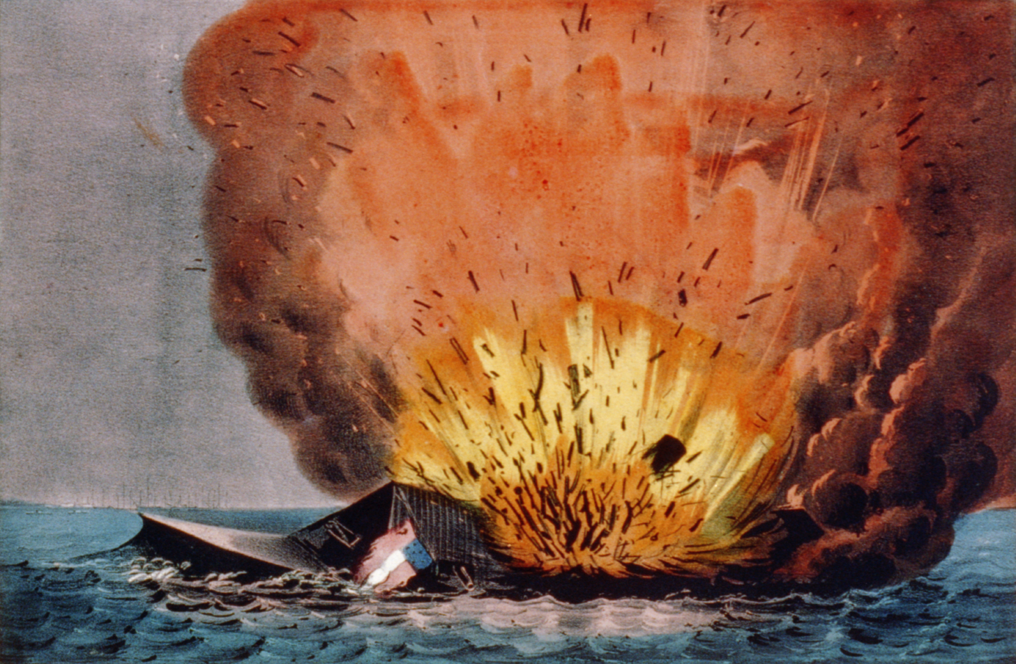 Destruction of the rebel monster "Merrimac" off Craney Island May 11th 1862. lithograph, hand colored.